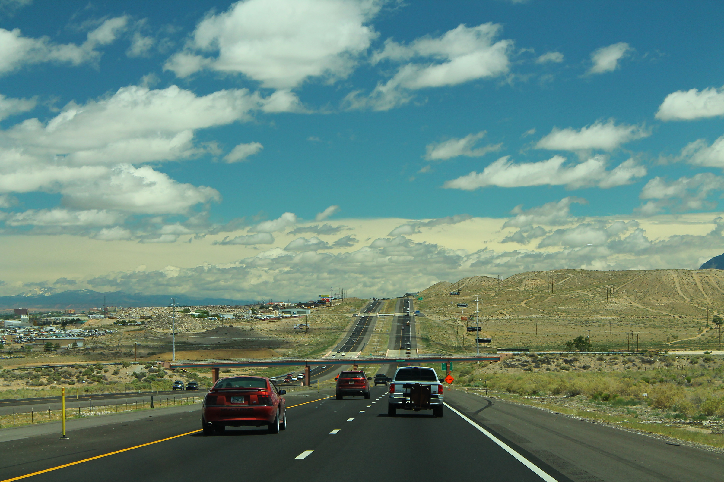 Int25nRoadNM-MM218-HillsAndClouds